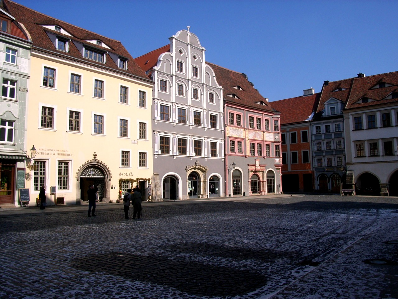 the square "Untermarkt" in Görlitz, Saxony